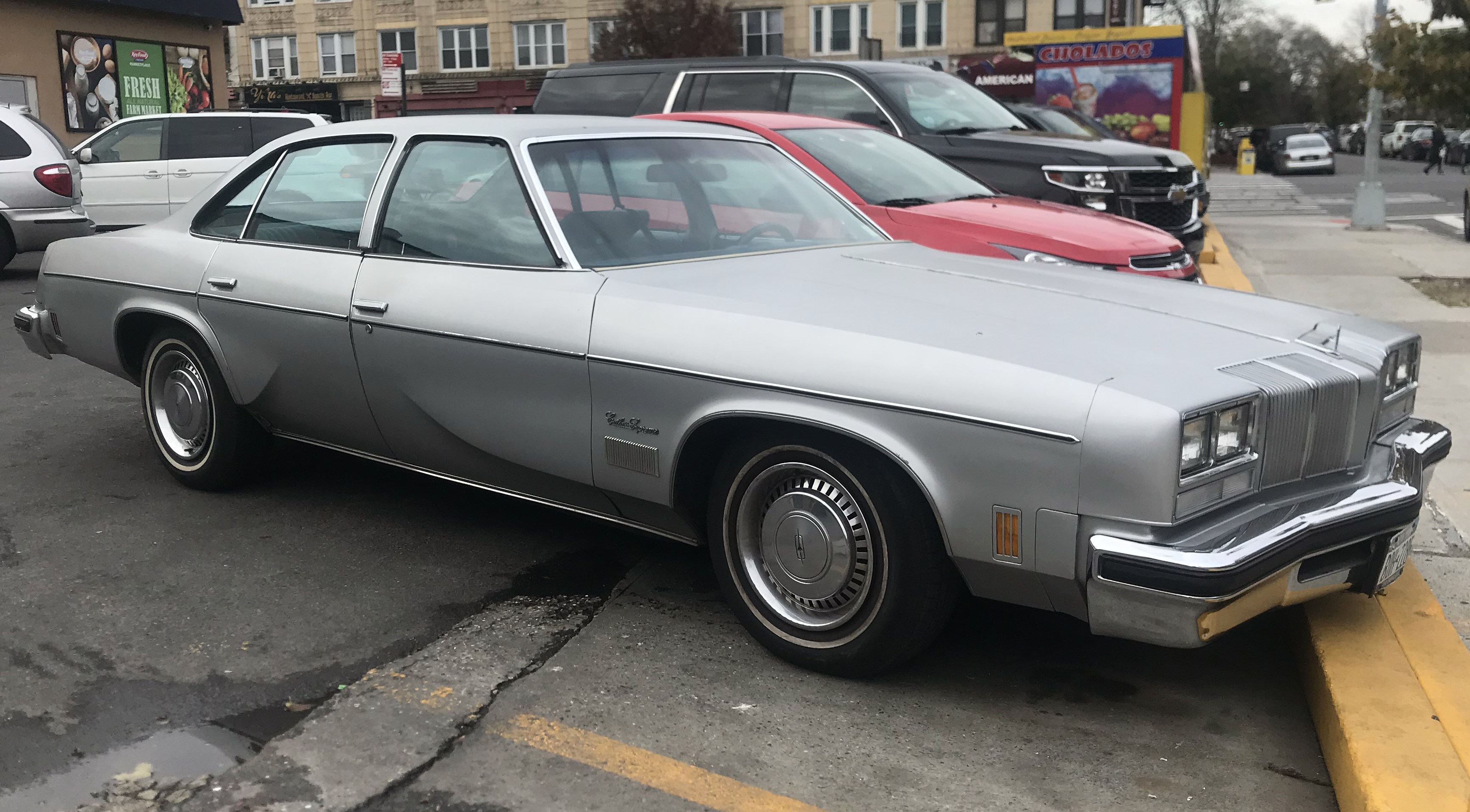 1976 Oldsmobile Cutlass Supreme four-door sedan. 4-barrel 350ci V8 with 170hp, assembled in Doraville, GA.